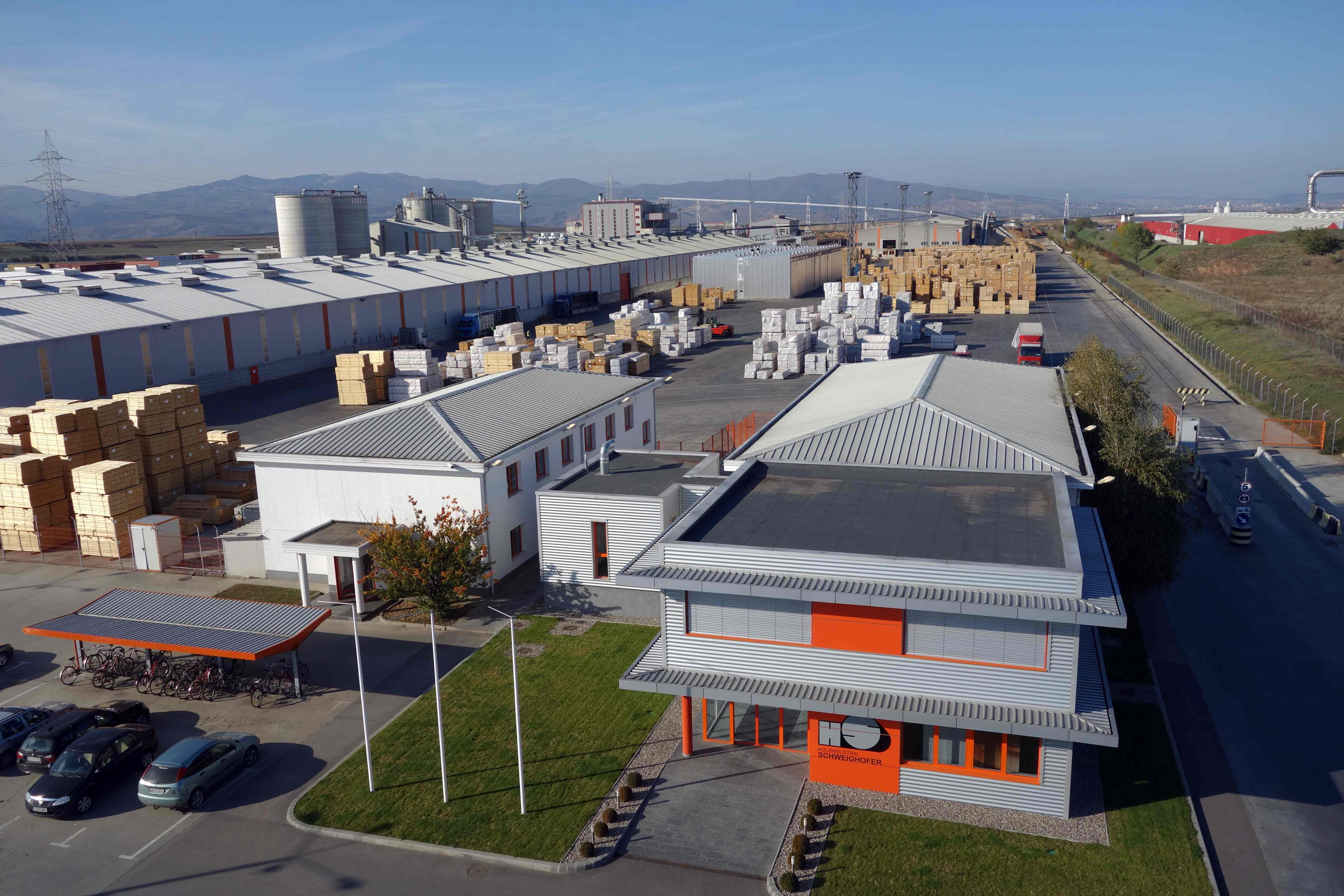 Sawmill in Sebeș, Romania.